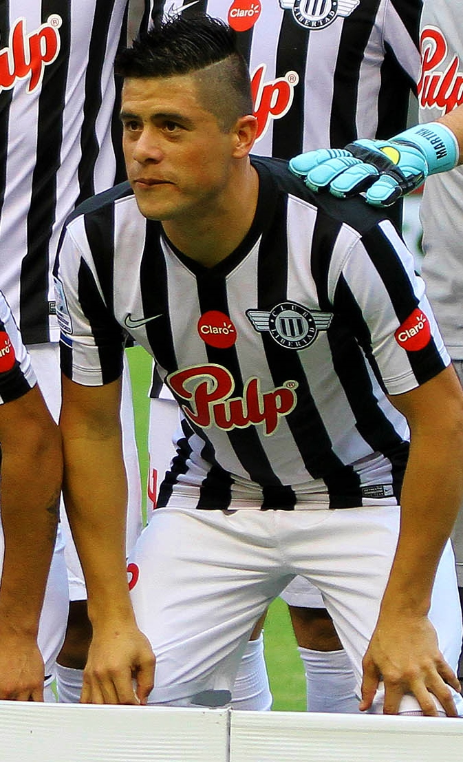 Jorge Moreira.Guayaquil, Martes 3 de marzo del 2015 (ANDES).-Libertad de Paraguay enfrenta al Barcelona de Ecuador en el partido jugado en el estadio Monumental por Copa LibertadoresFoto:César Muñoz/ANDES